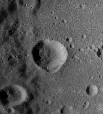 LROC image WAC No. M118953506ME. Calibrated by LROC_WAC_Previewer.